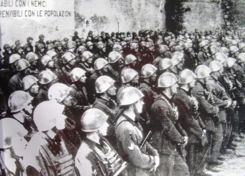 The Black Brigade of Mantova, 1945